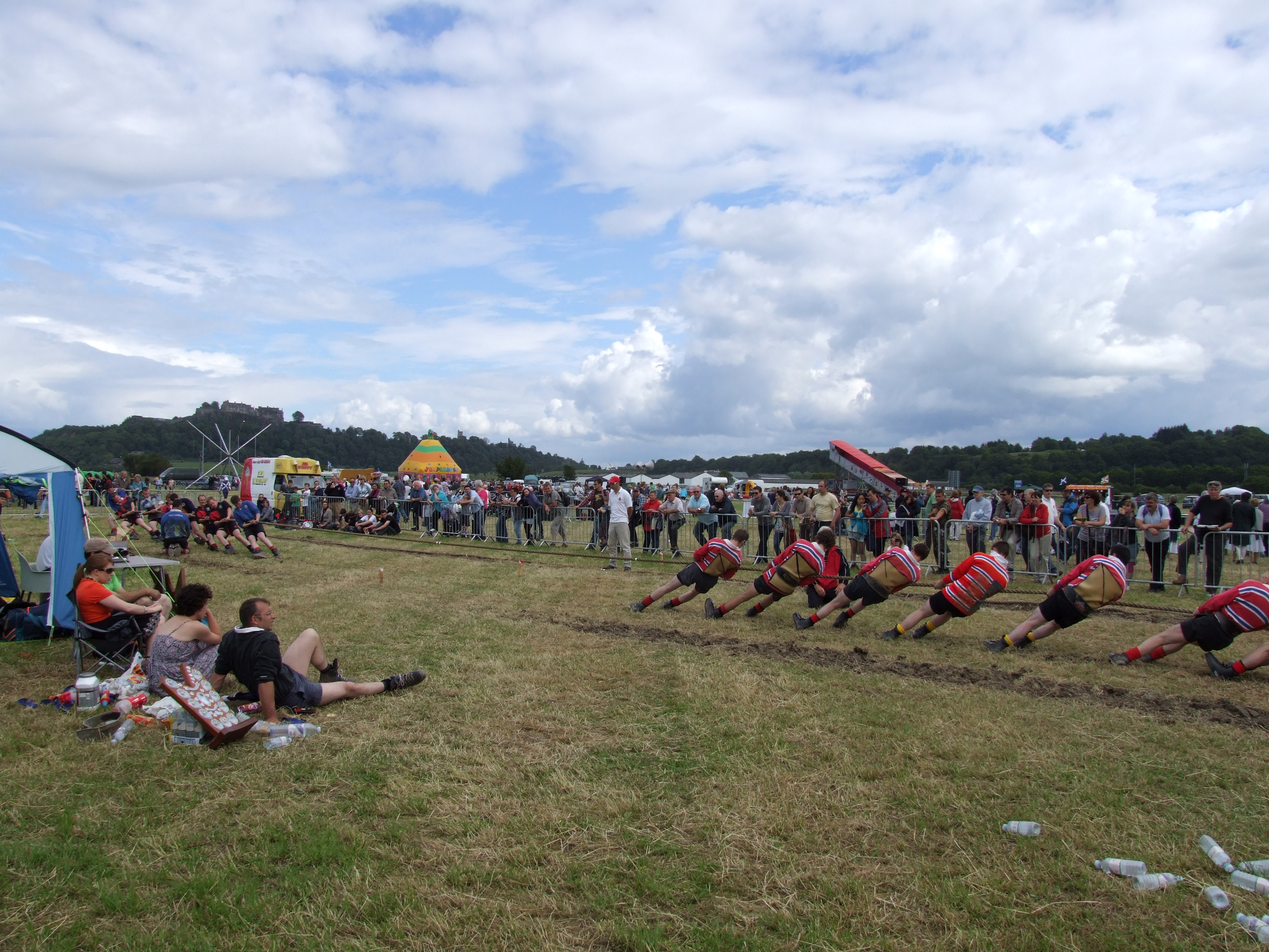 Highland games tug of war